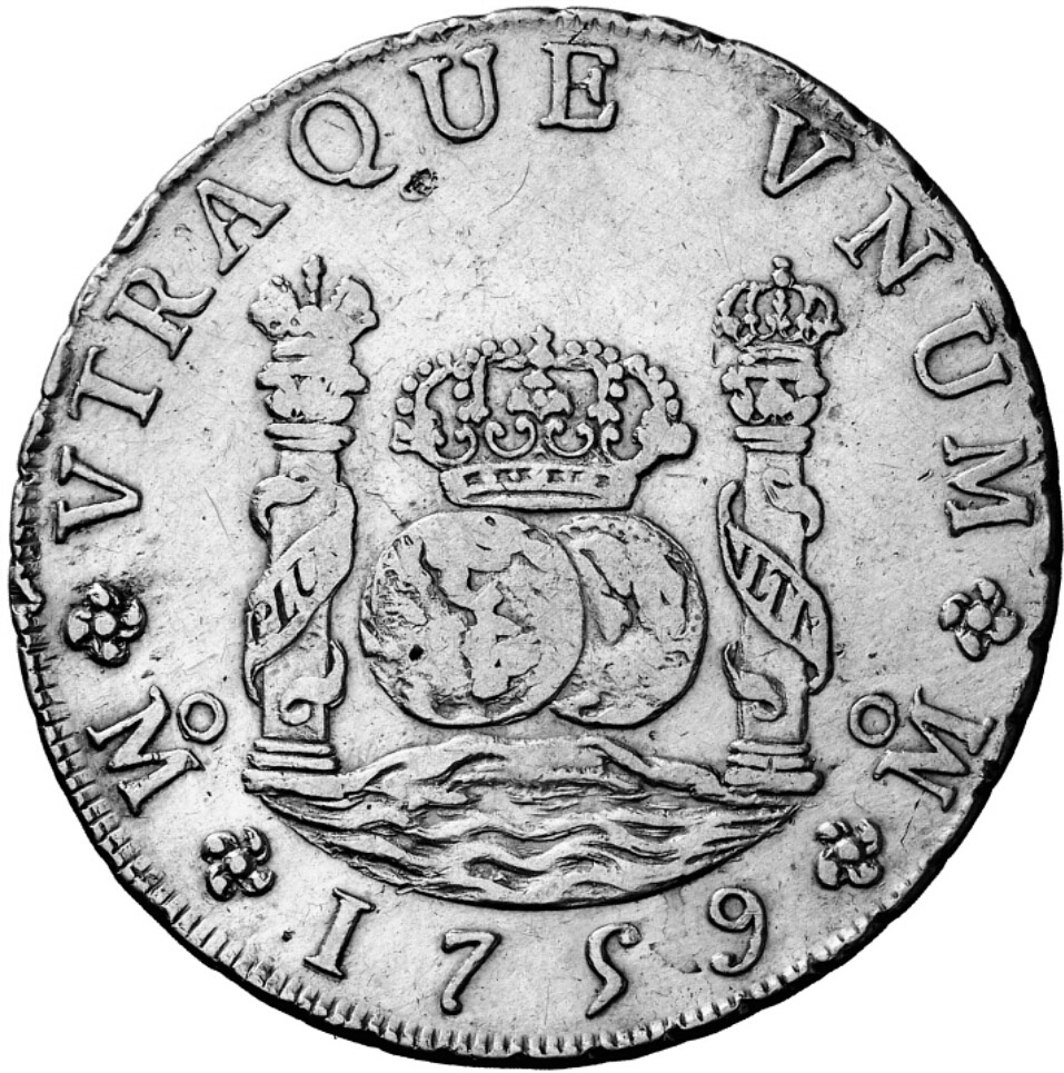 Eight reales spanish silver pillar dollar coin, minted in Mexico under Fernando VI's reign (reverse)